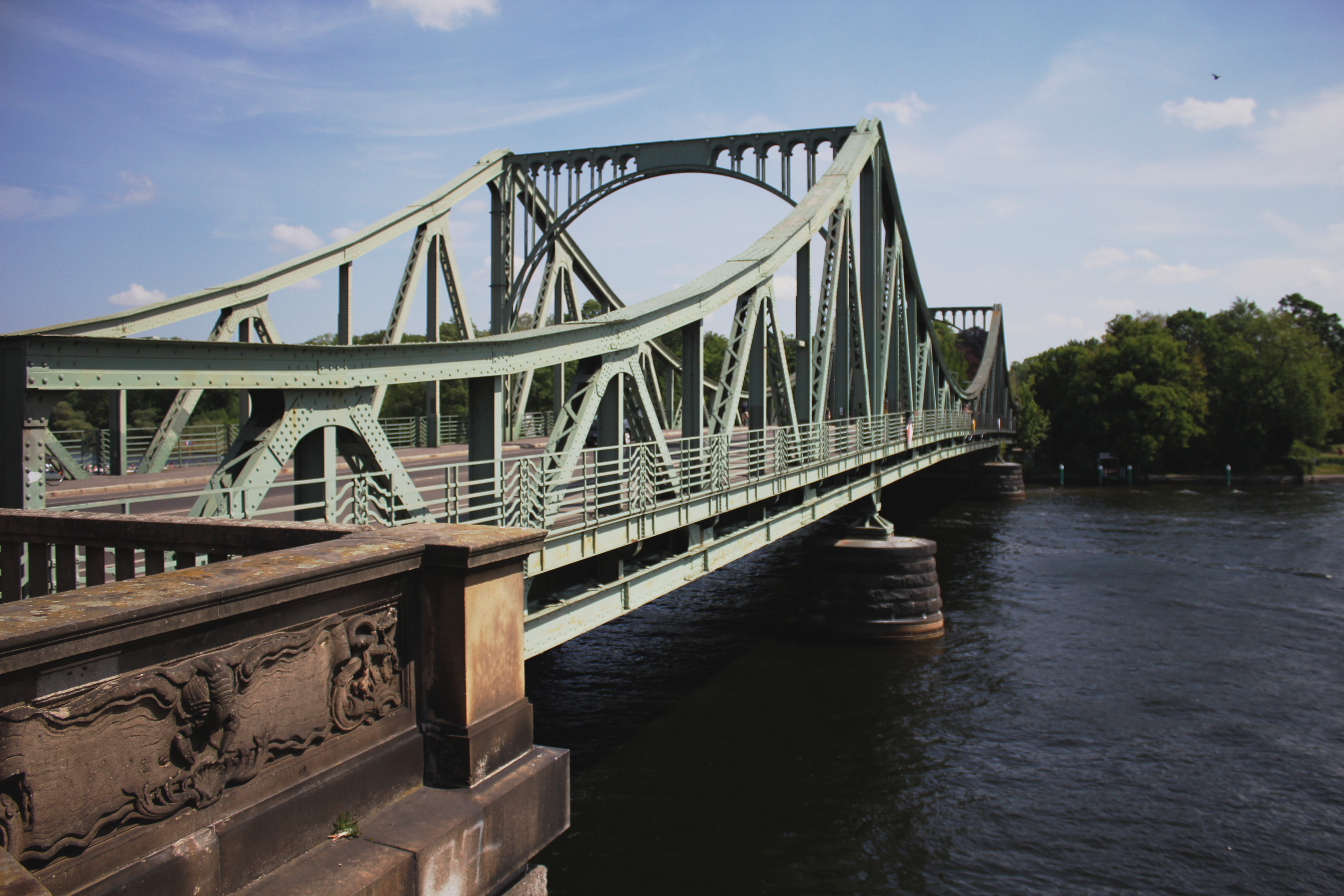 this picture shows the Glienicke bridge. It was taken standing on the Potsdam water's edge looking towards Berlin